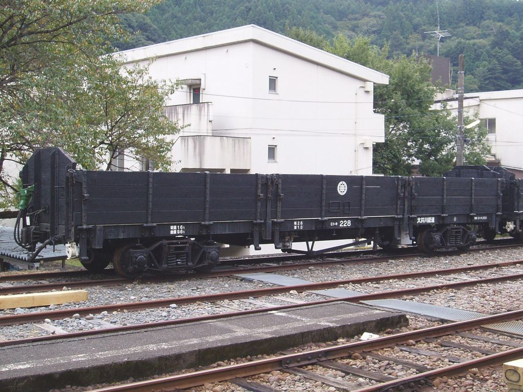 Oigawa Railway type Toki228. at Senzu Sta. 2007.10.09 Photo by Cassiopeia_sweet.